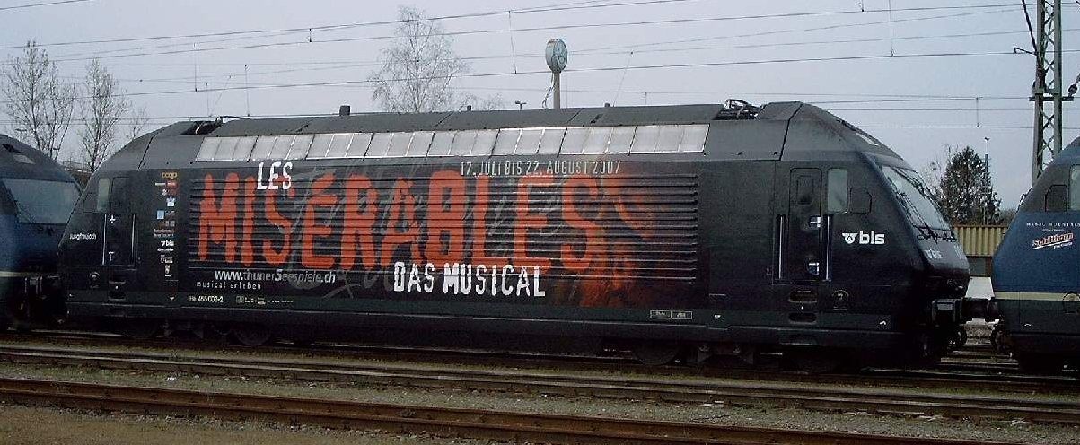 Engine N° 465 003-2